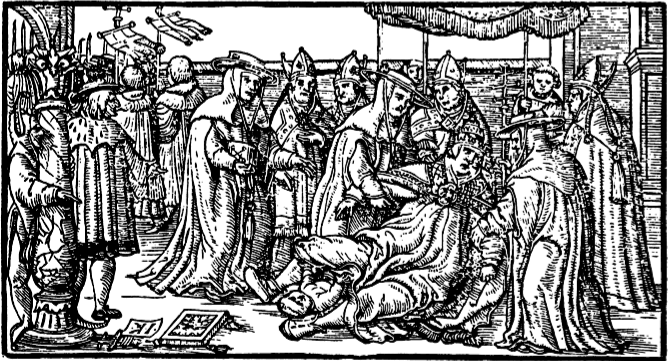 Pope Joan giving birth, from Giovanni Boccacio's De Claris Mulieribus, chapter XCIX, "De Ioanne Anglica Papa".